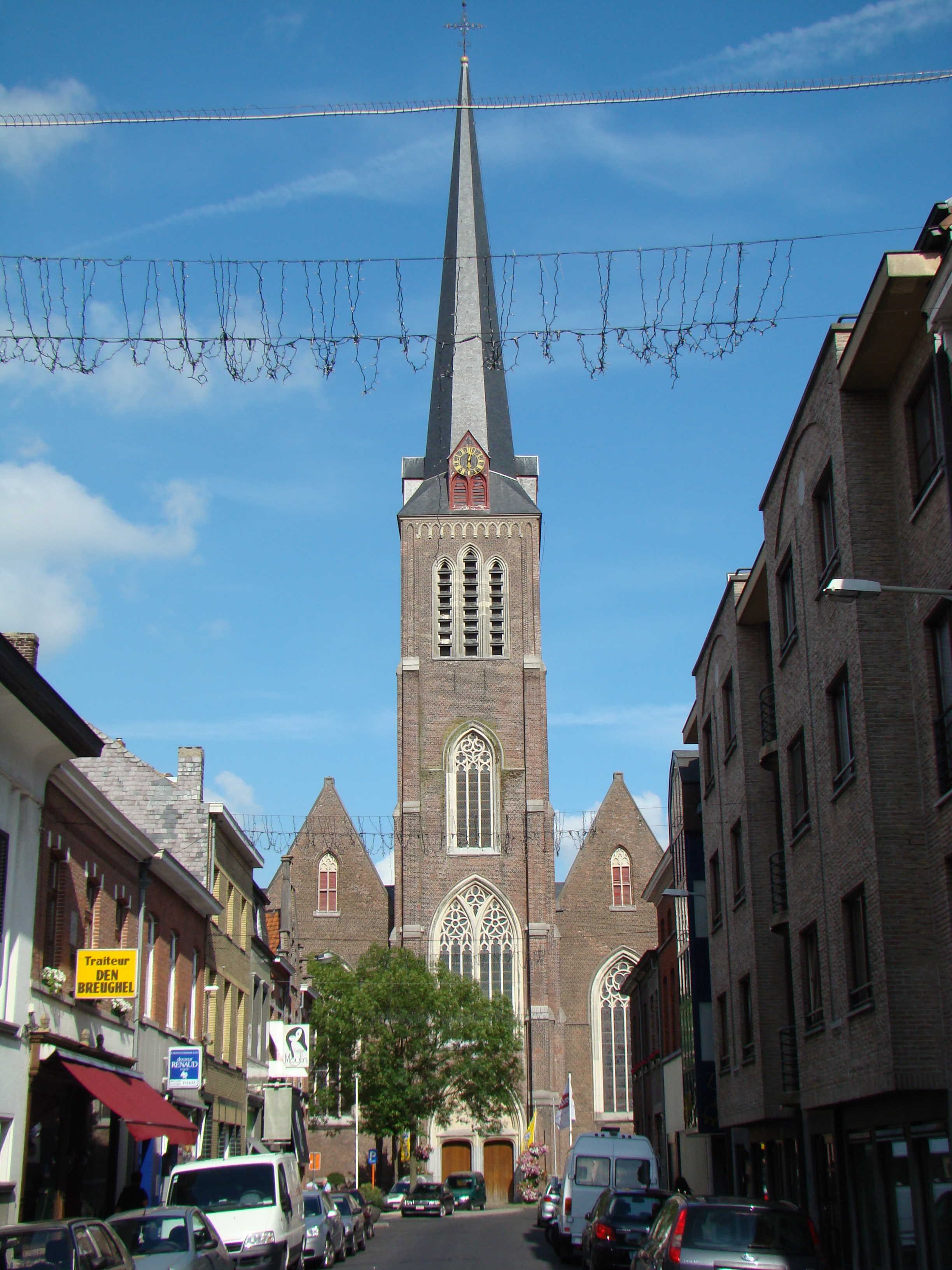 Sint-Tillo church Izegem (West Flanders, Belgium)